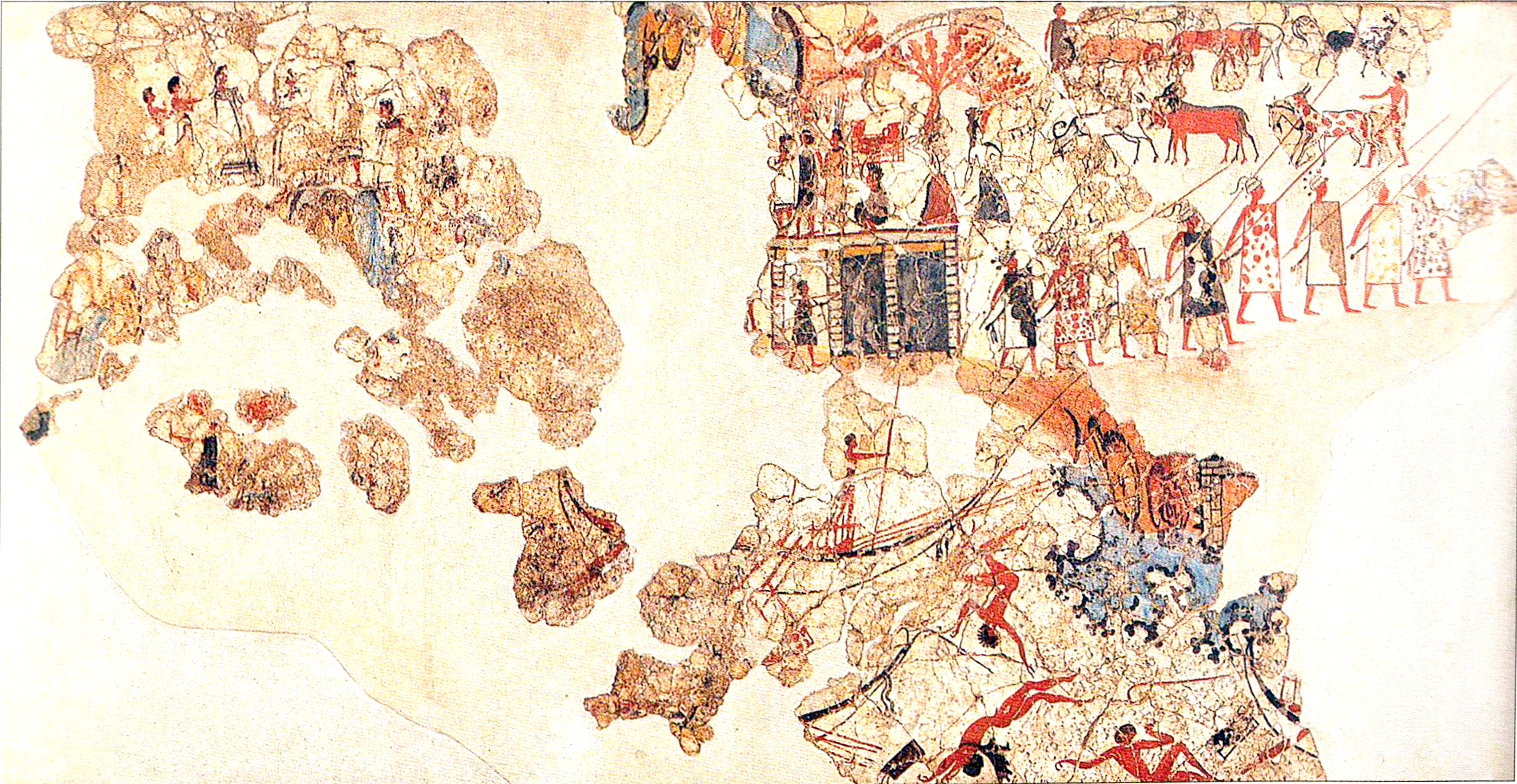 Bronze age fresco from the excavation site Akrotiri on the Greek island of Santorini. On the left the fresco shows a scene, that is called "assembly on the hill". The right part shows herds, shepherds, warriers, a well and a shipwreck scene.